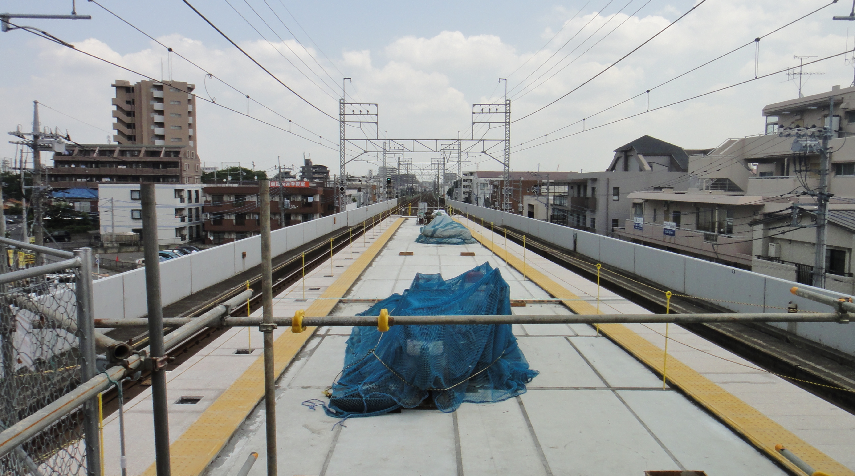 The 2-car-length platform extension under construction at the east end of Kita-Asaka Station on the Musashino Line